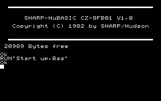 SHARP Personal Computer X1 Hu-BASIC Screenshot